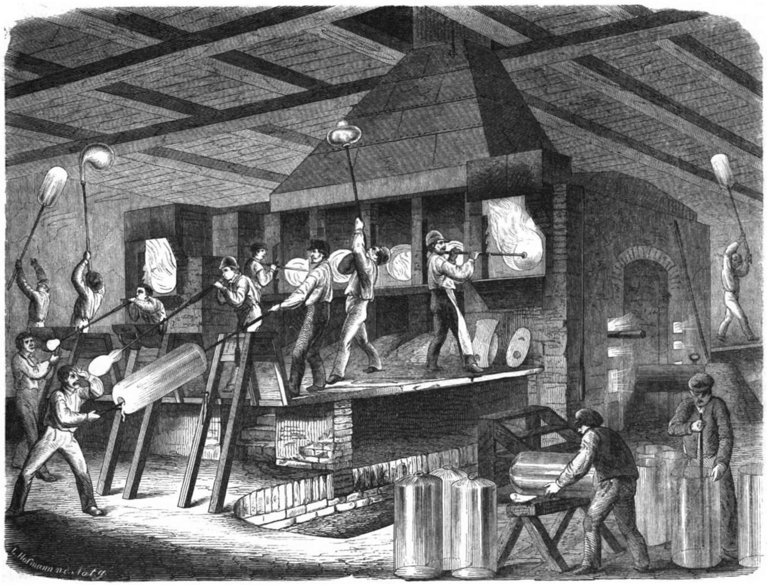 caption: "Die Fikentscher’sche Glashütte in Zwickau"